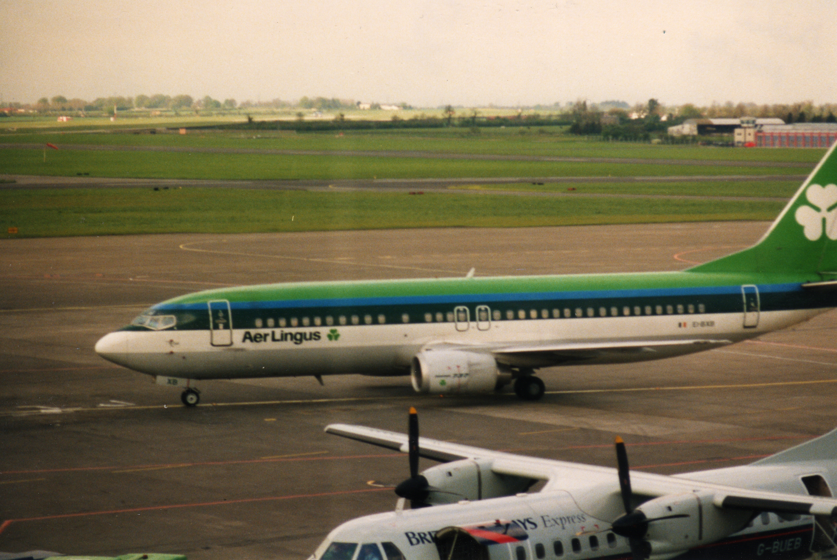 Aer Lingus (EI-BXB) Boeing 737-400 aircraft, Dublin Airport, Dublin, Republic of Ireland, May 1994